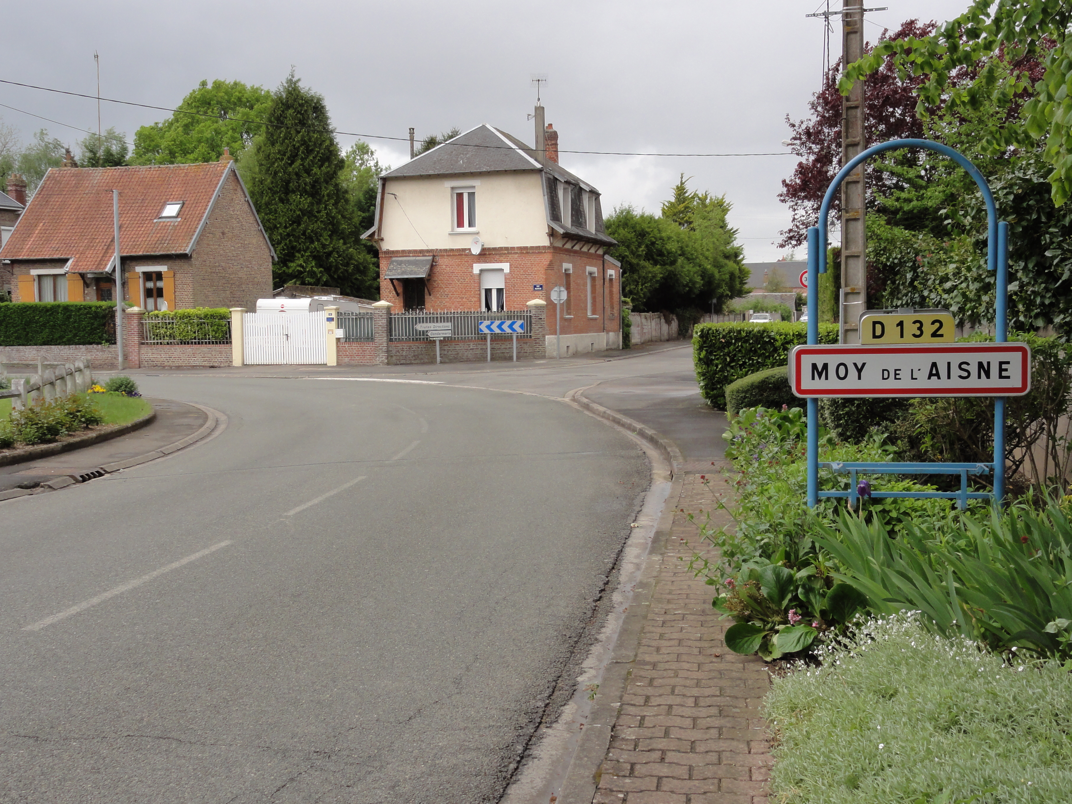 Moÿ-de-l'Aisne (Aisne) city limit sign